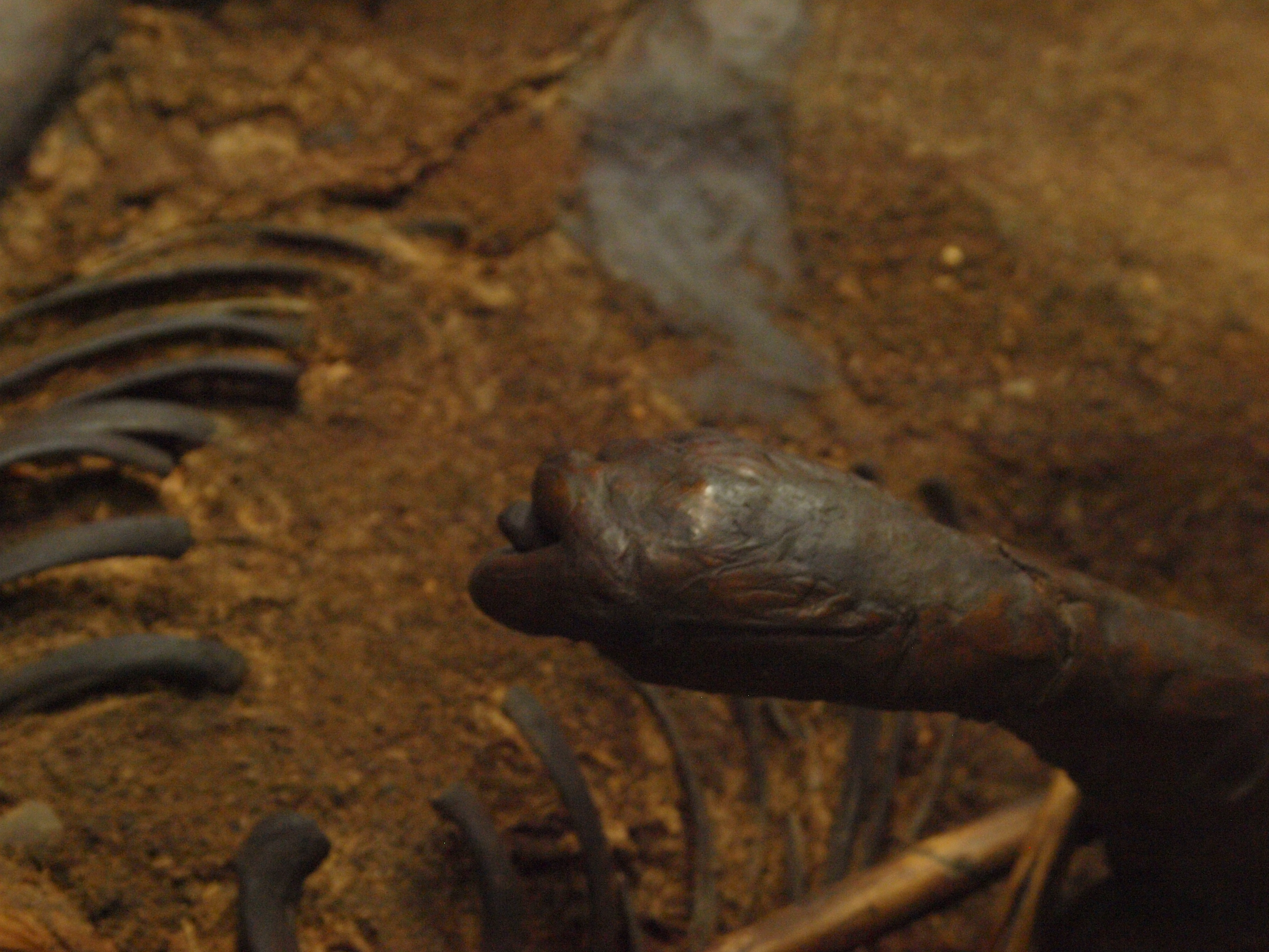 Right hand of bog body Windeby I a 16 year old boy on display at Archäologisches Landesmuseum Gottorf Castle, Schleswig Germany. Found in 1952 in the Domslandmoor near Windeby. C14 dated beween 41 and 118 AD.